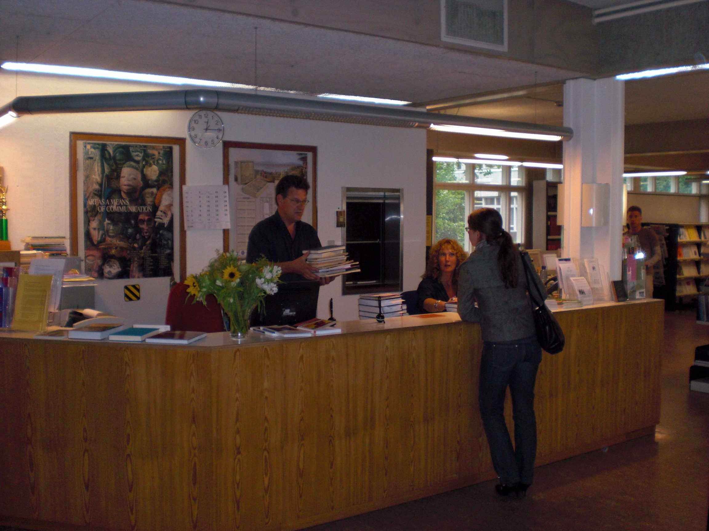 Lending desk of the KITLV institute